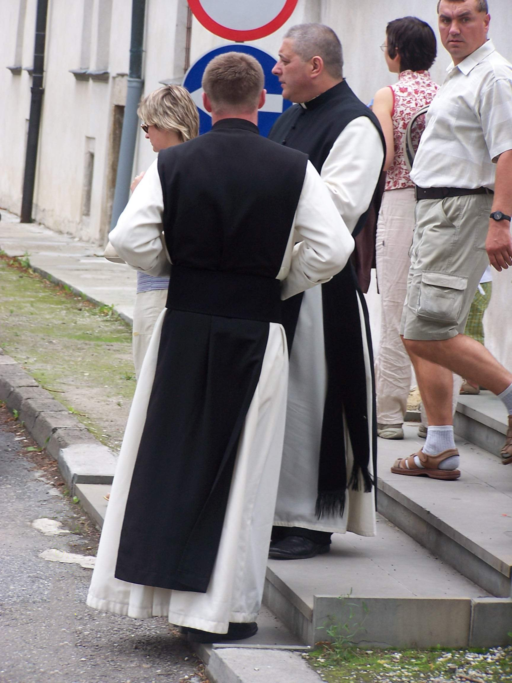 Cistersian priests in Szczyrzyc monastery. Photo by Piotrus.